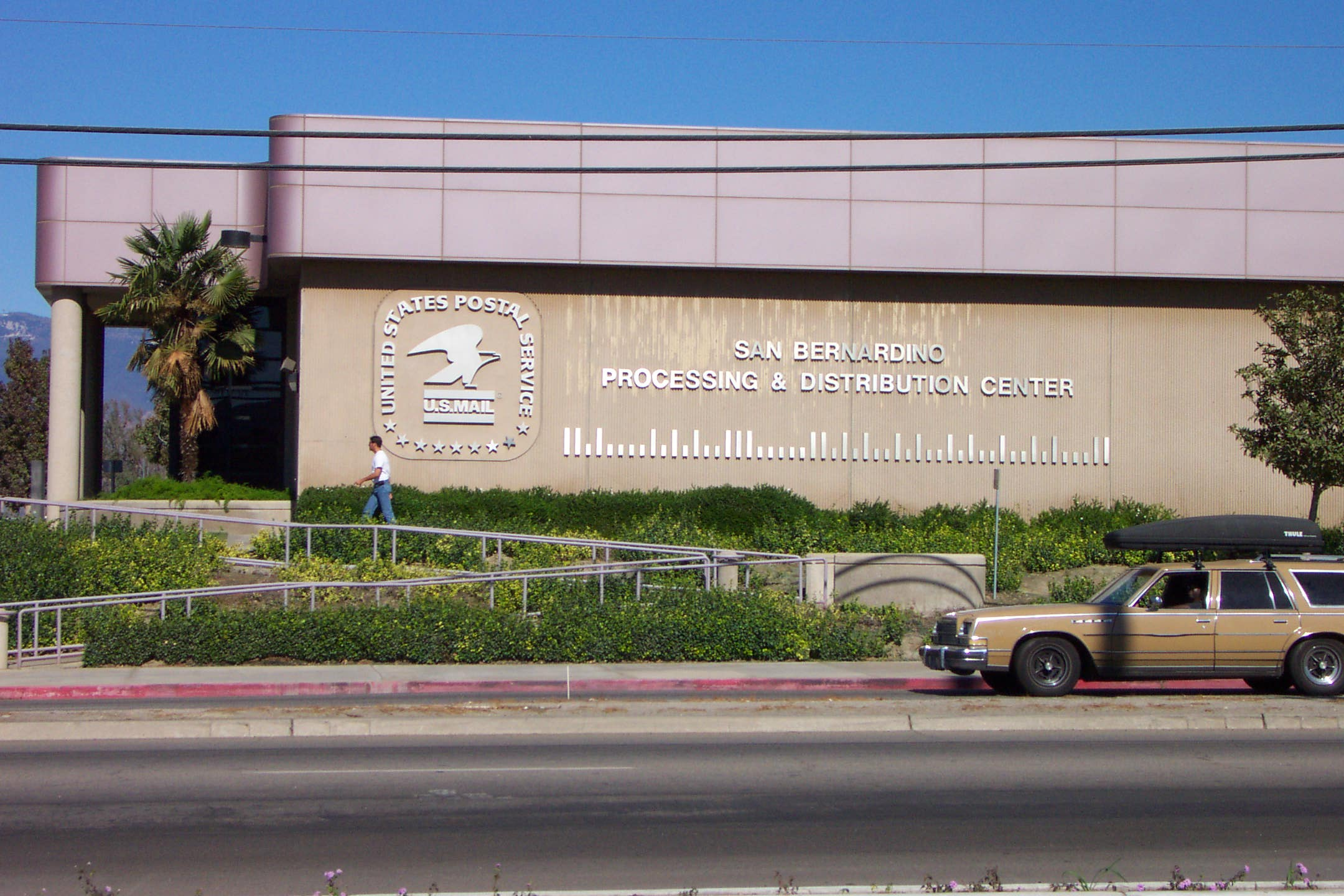 Exterior of USPS facility in San Bernardino, California, USA. Picture taken for novelty of POSTNET barcode on the side; it turned out to be the correct code (92403-9998, check digit 7).